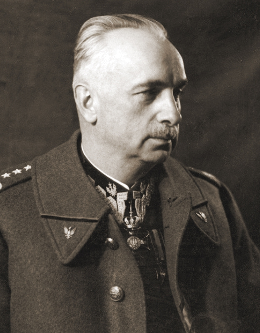 Kazimierz Sosnkowski (1885-1969) -General of the Polish Army